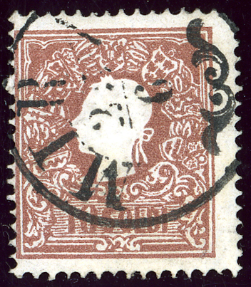 Stamp of Lombardy-Venetia, 10 soldi, issue 1859 (type II), ornamented cancelled at MIRA.